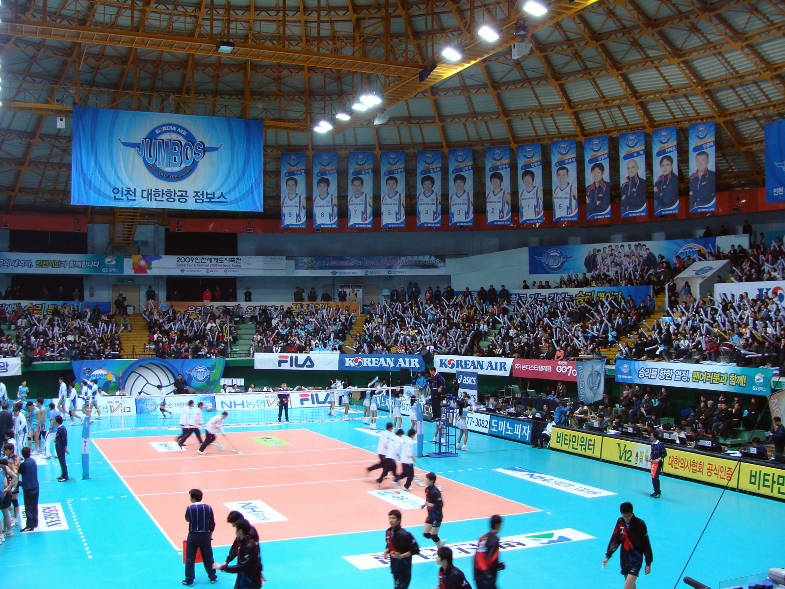 A Volleyball game at Incheon Dowon Gymnasium